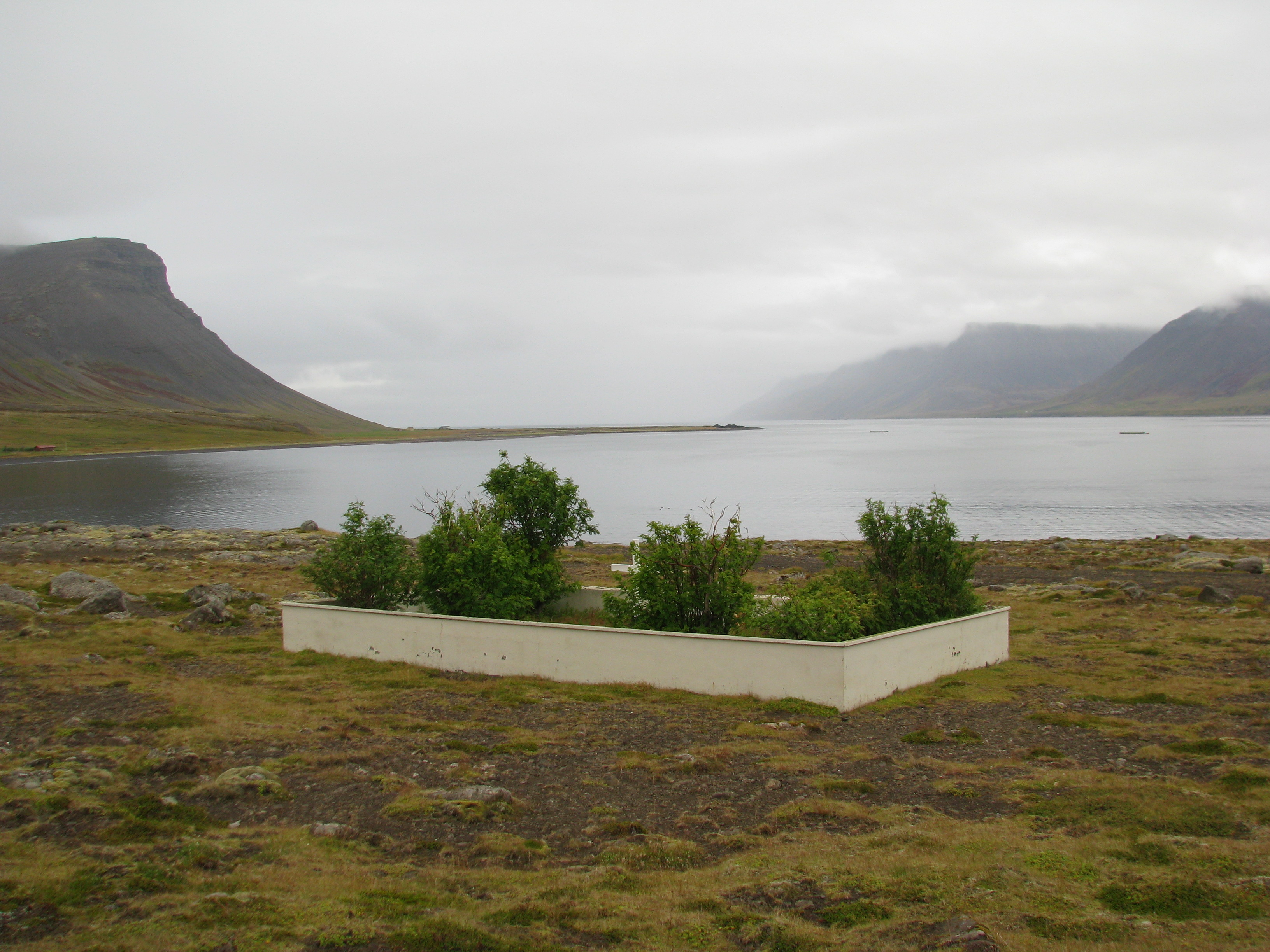 Graves of French seamen at the shore of Dýrafjörður, North Iceland.